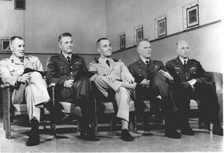 Left to Right: Robert F. (Bob) Overmyer, USMC; Henry W. (Hank) Hartsfield, USAF; Robert L. Crippen, USN; Karol J. Bobko, USAF; and Charles Gordon Fullerton, USAF. Every member of this group would go on to fly the Shuttle.